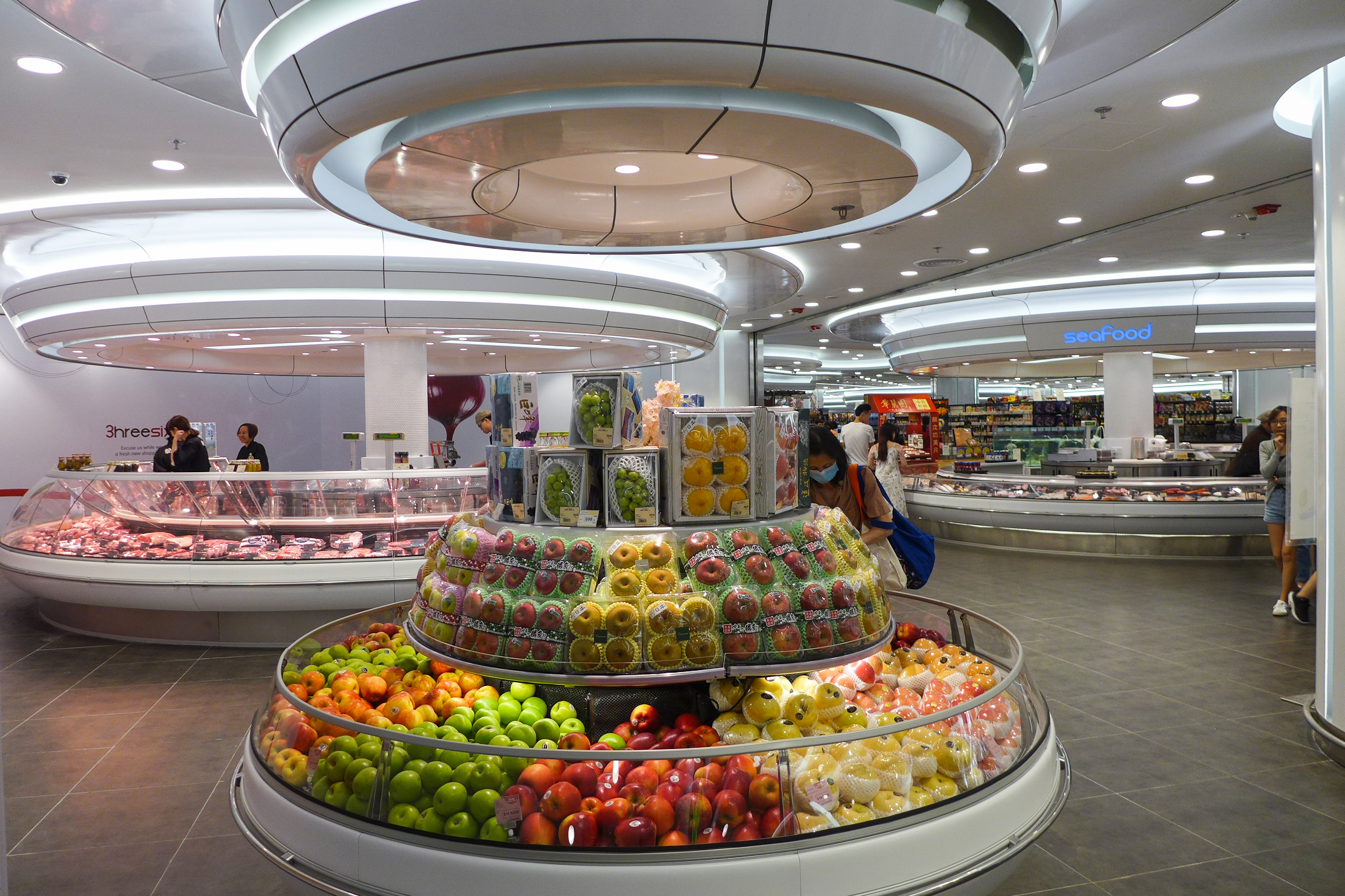 3hreeSixty Elements Interior